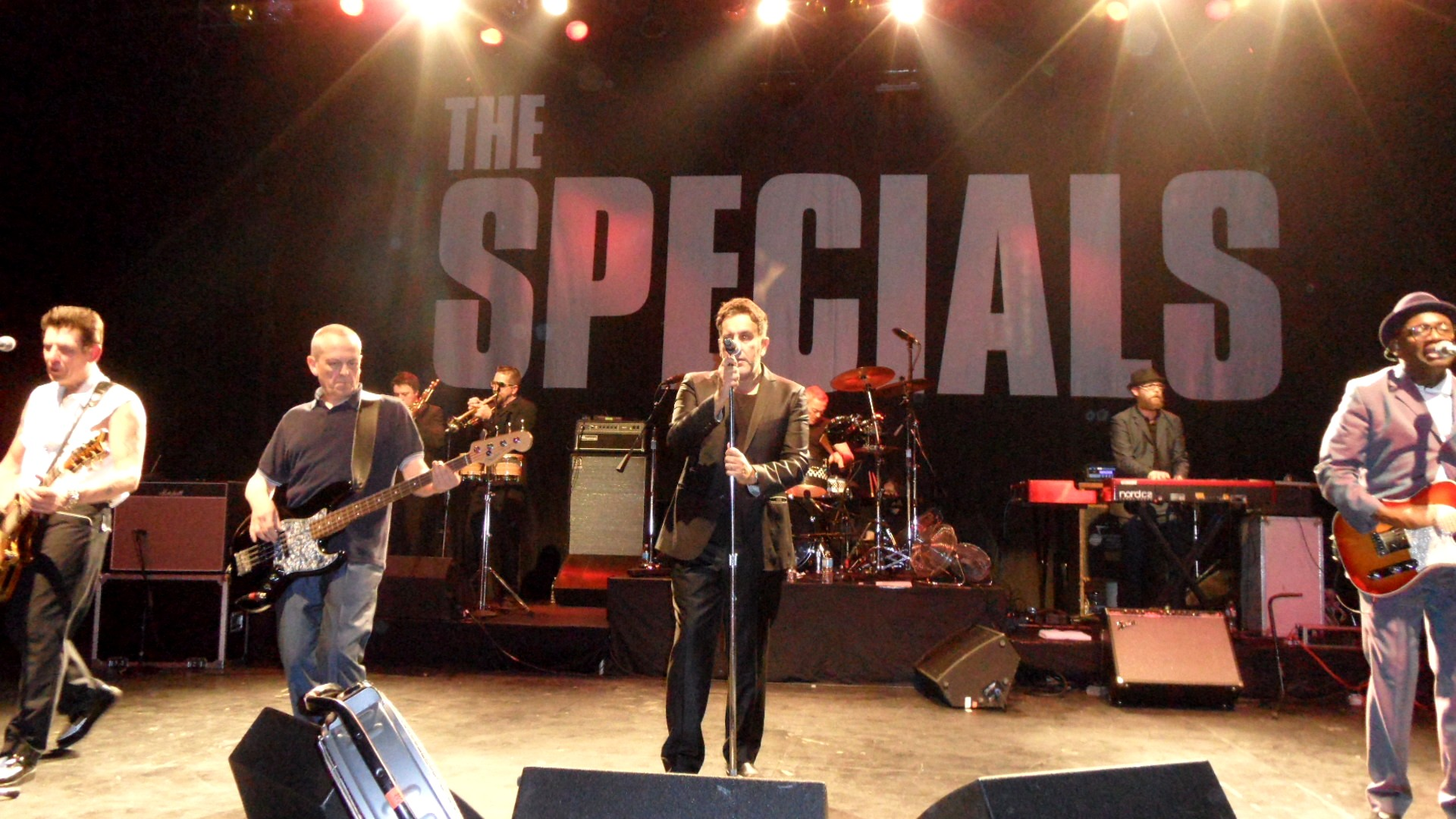 The Specials at the Vic Theatre in Chicago, IL March 11, 2013